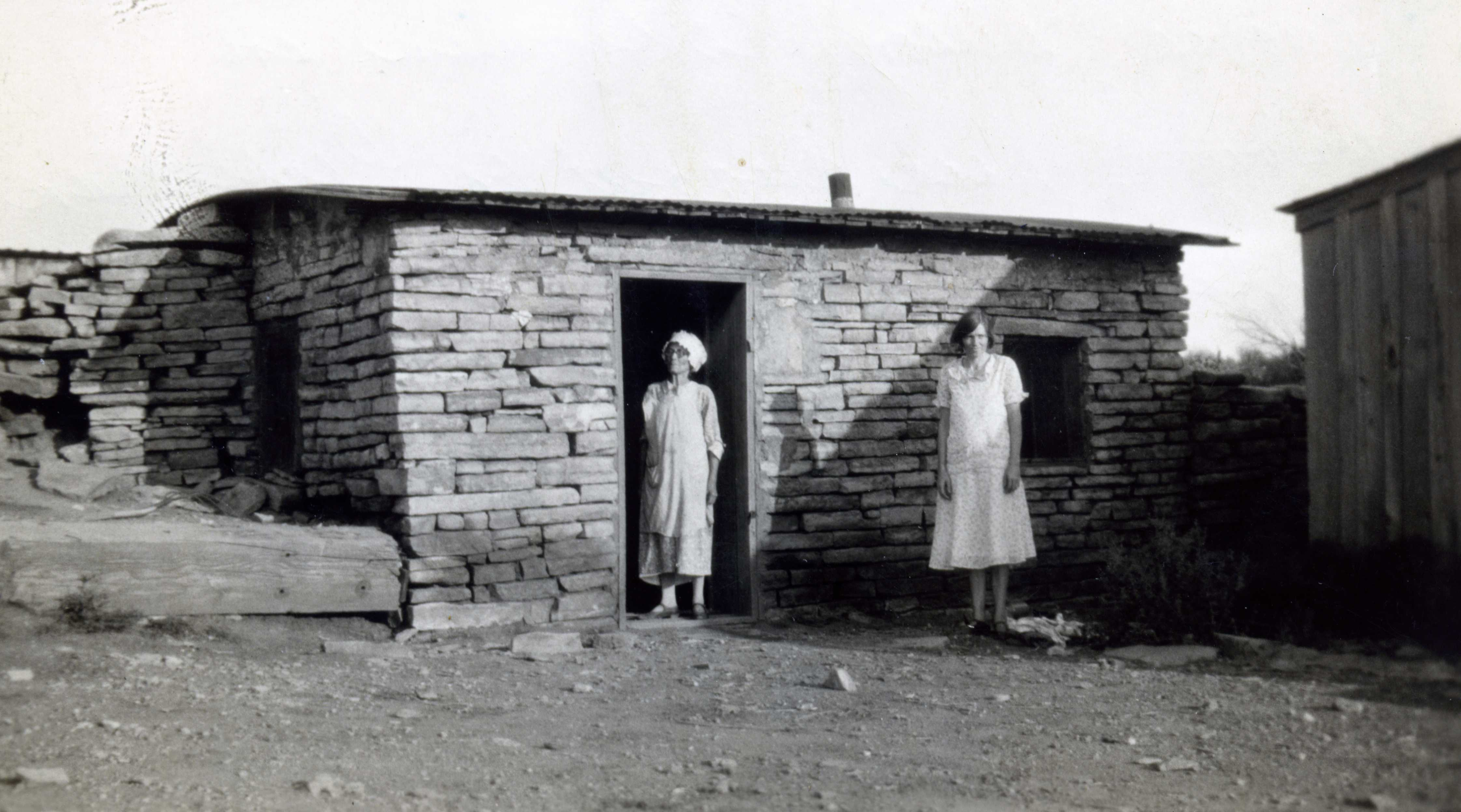 Copyright (c) 2011 Tad W Perryman Permission is granted to copy, distribute and/or modify this document under the terms of the GNU Free Documentation License, Version 1.3 or any later version published by the Free Software Foundation; with no Invariant Sections, no Front-Cover Texts, and no Back-Cover Texts. A copy of the license is included in the section entitled "GNU Free Documentation License".